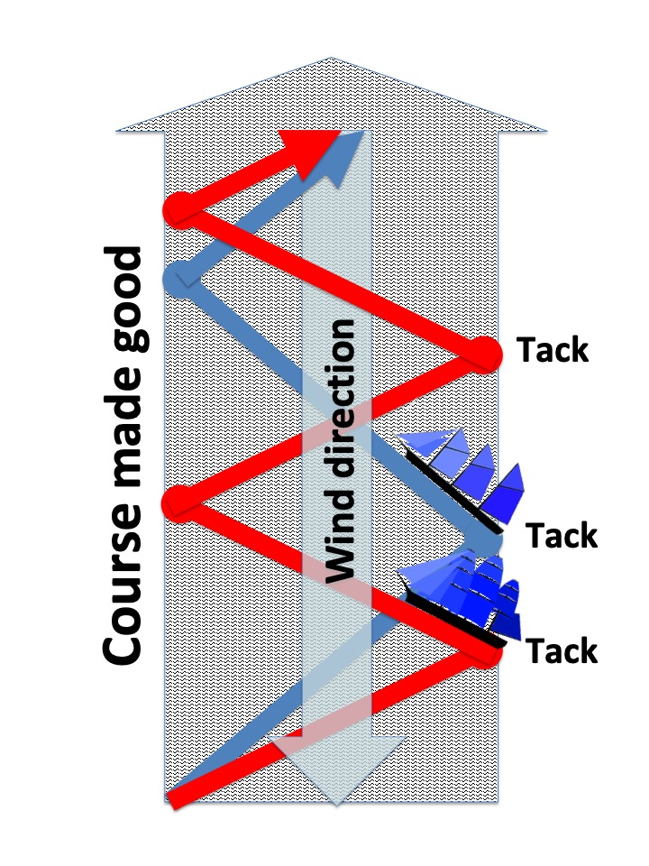 Square-rigged vessels can only tack at 60° off the wind, whereas fore-and-aft rigged vessels can tack at 45° off the wind, so the square-rigged vessel must travel a longer distance than the fore-and-aft rigged vessel to achieve a course made good to windward.